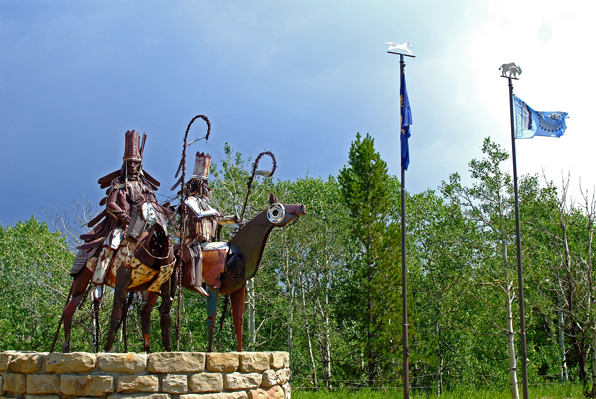 Blackfeet Nation - Sculptures at the entry to the reservation near East Glacier